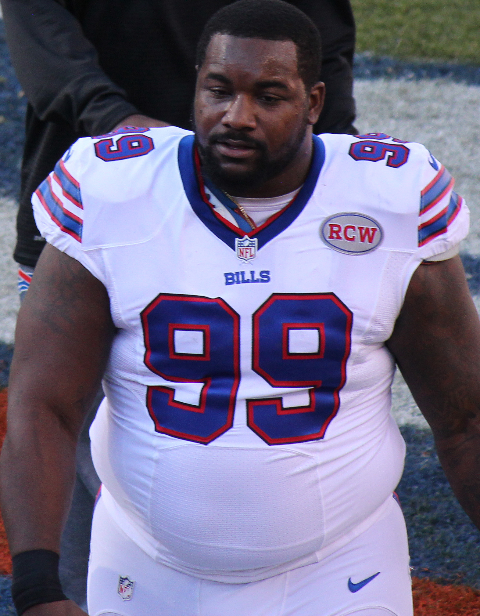 Marcell Dareus, a player on the National Football League.